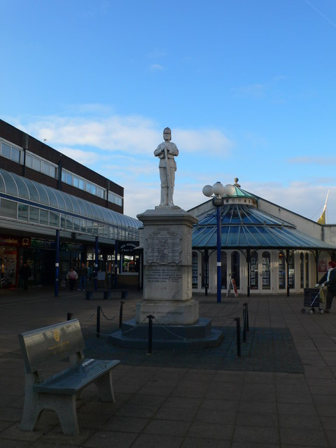 Boer War Memorial in Winsford Cross Shopping Centre